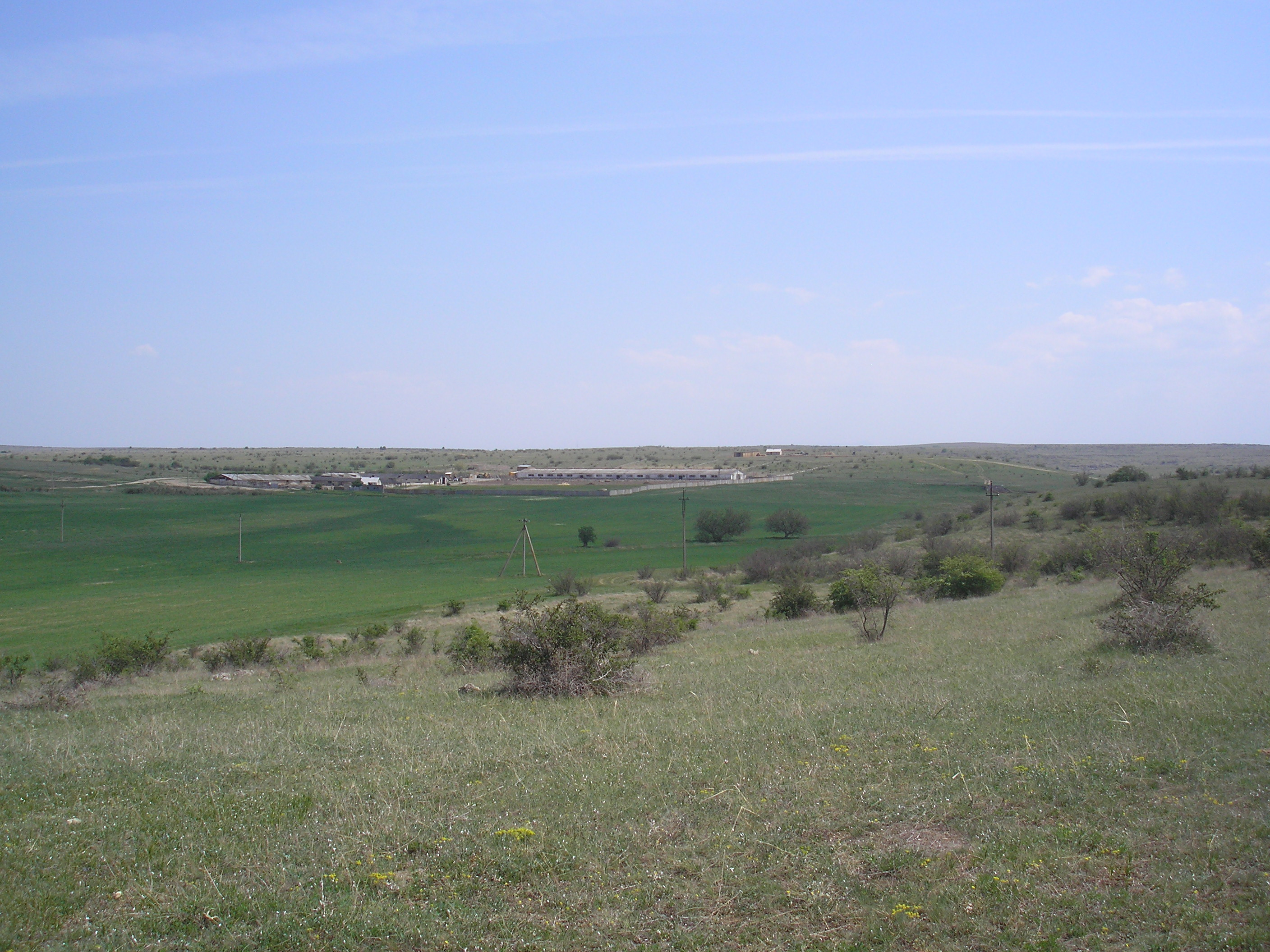 Disappeared village Panfilovka, Bakhchisaray district, Crimea